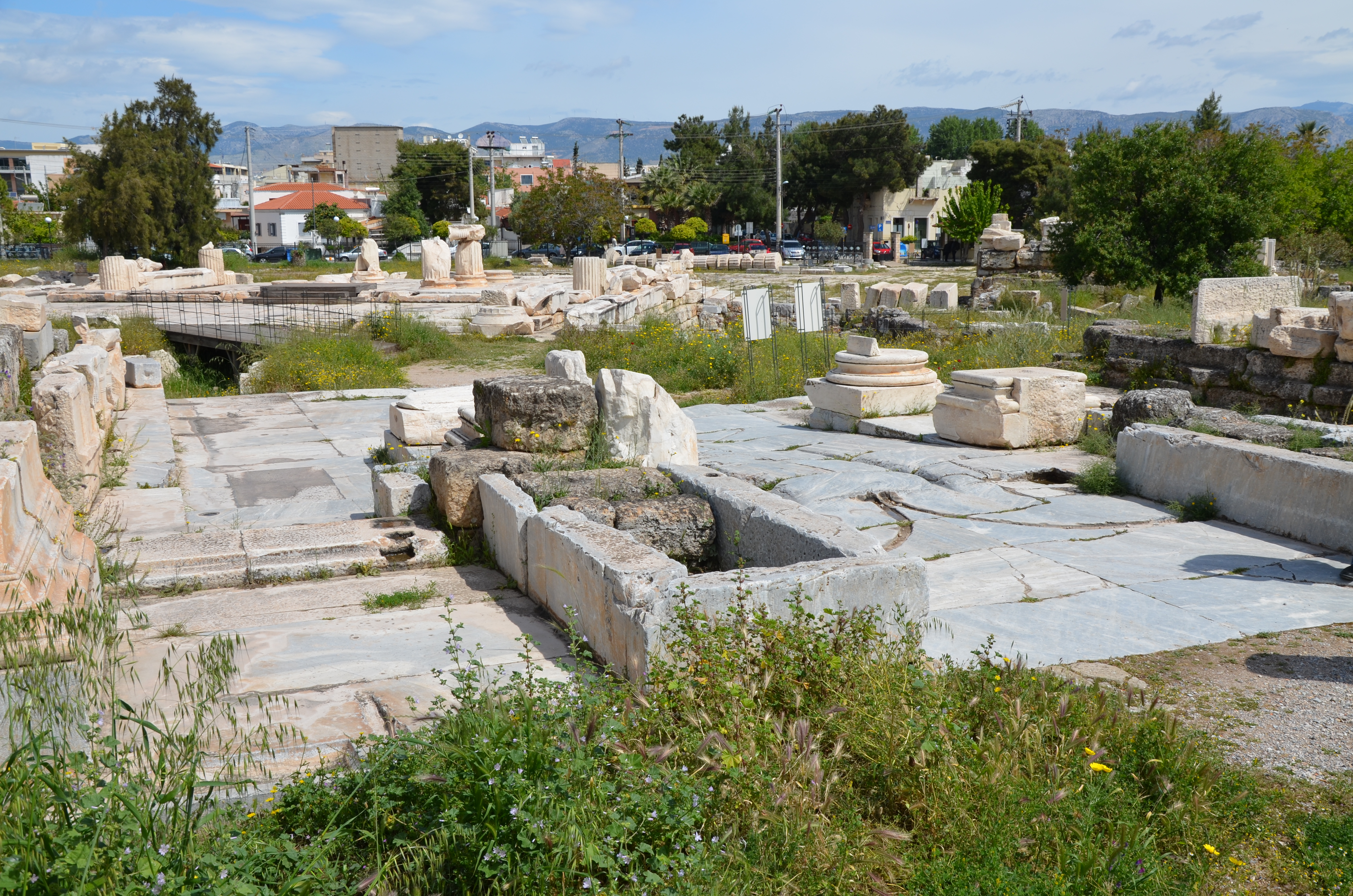 The Lesser Propylaea, a small gateway to the Sanctuary of Demeter and Kore built ca. 60 BC - ca. 10 BC, Eleusis